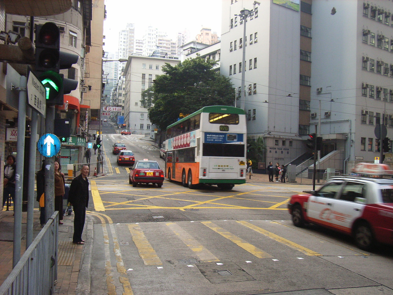 Western Street, Hong Kong (西邊街), is a street in Sai Ying Pun, Hong Kong Island. Author:zh:User:KennethTom